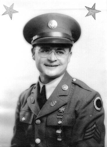 World War II Medal of Honor recipient Pvt Rodger Young, United States Army. His jacket indicates that he possesses the rank of Sergeant. Though he was a Private when he received the medal, he had previously held the rank of Staff Sergeant but was reduced in rank at his own request.